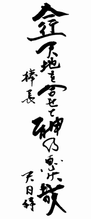 a signature of the Kūko(空狐, Kitsune) from the Miyagawasha-manpitsu (宮川舎漫筆)